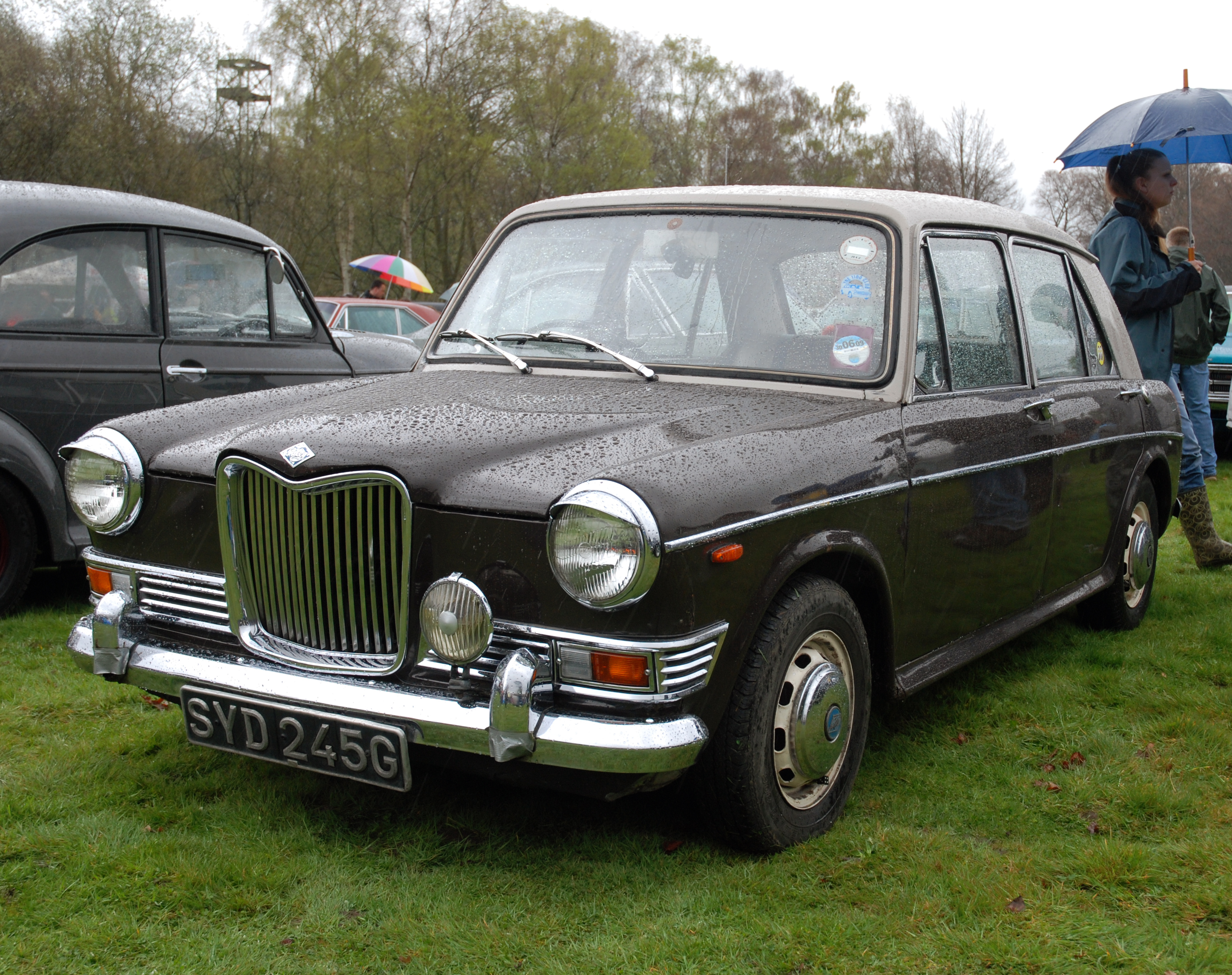 Wheels Day,Apr 2009